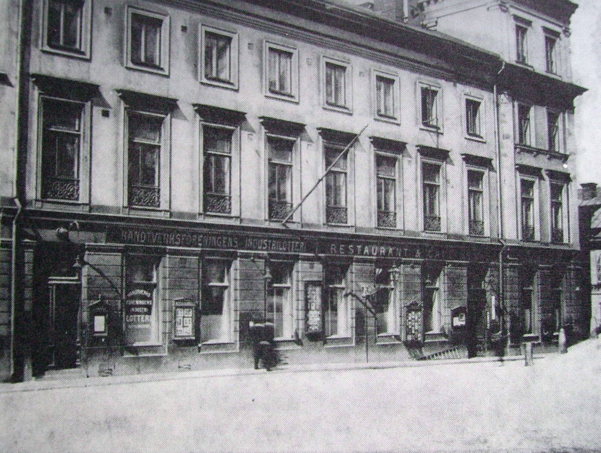 Picture of restaurant Runan at Brunkebergstorg in Stockholm